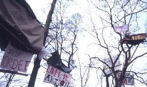 Protest camp against the construction of the autobahn A17 (Dresden–Praha)